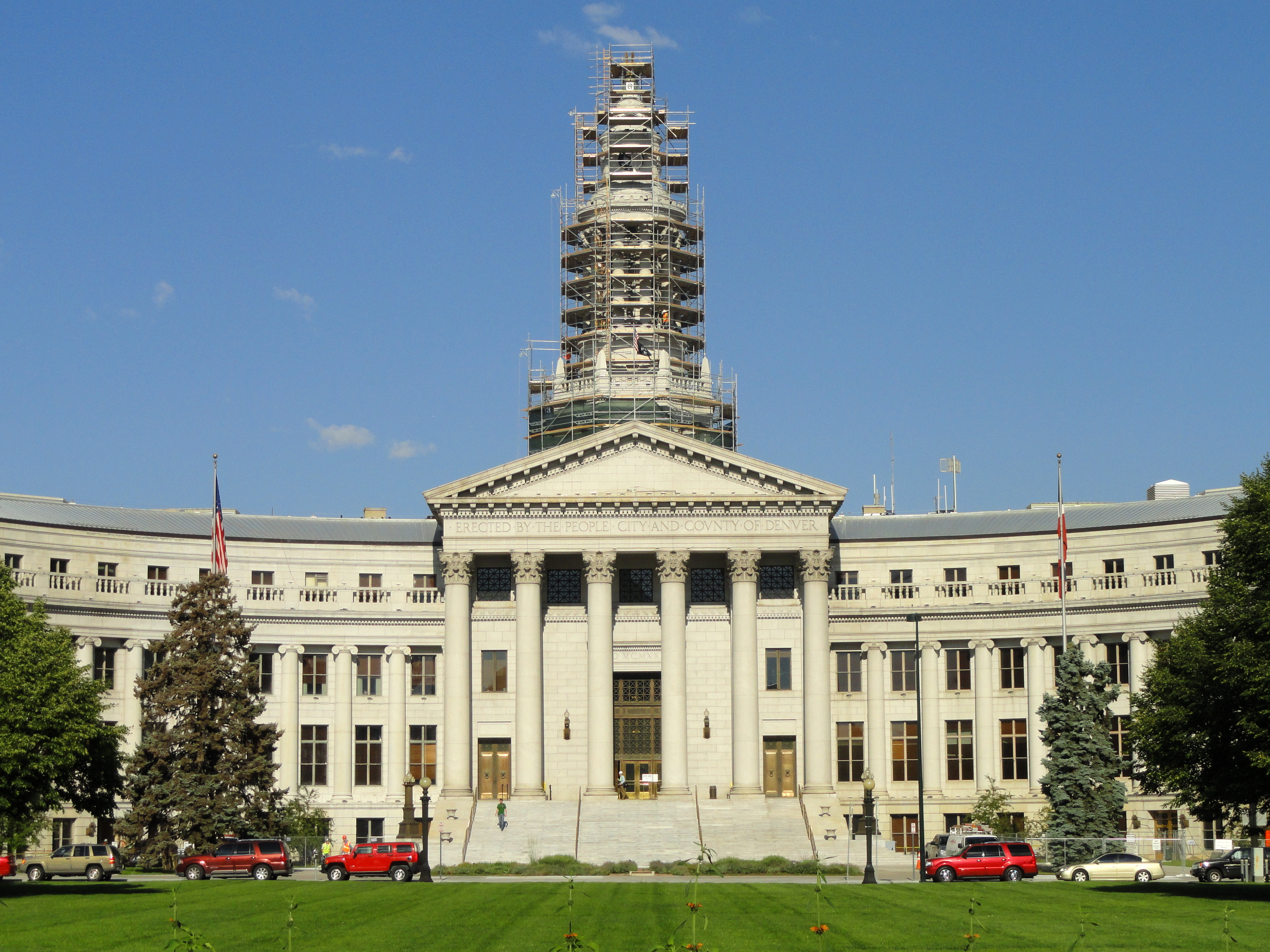 City and County Building (under repair), Civic Center Park, Denver, Colorado, USA.